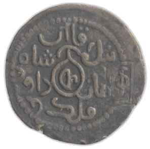 Monogram of King David VI Narin